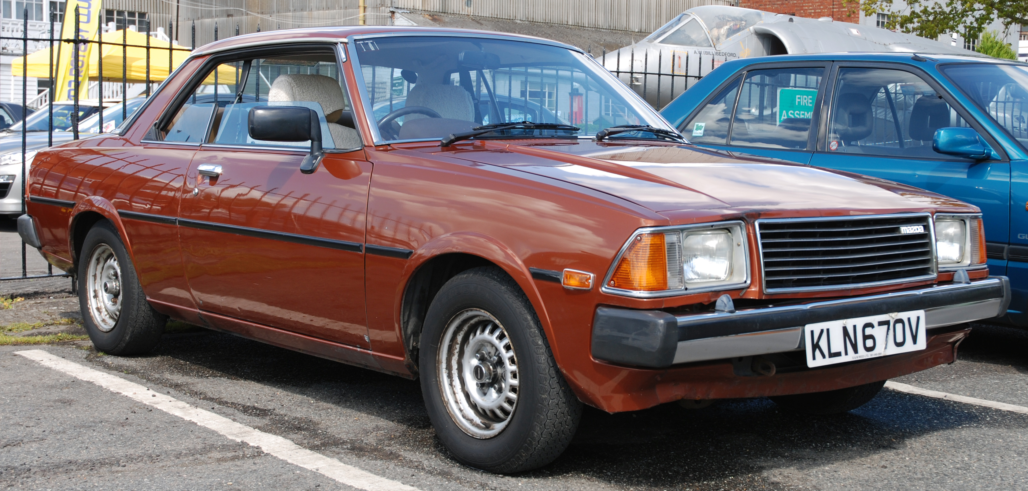 1980 Mazda Montrose Coupe 2.0 automatic at Brooklands, April 2009. "Montrose" was the name used in Britain for the 626/Capella.